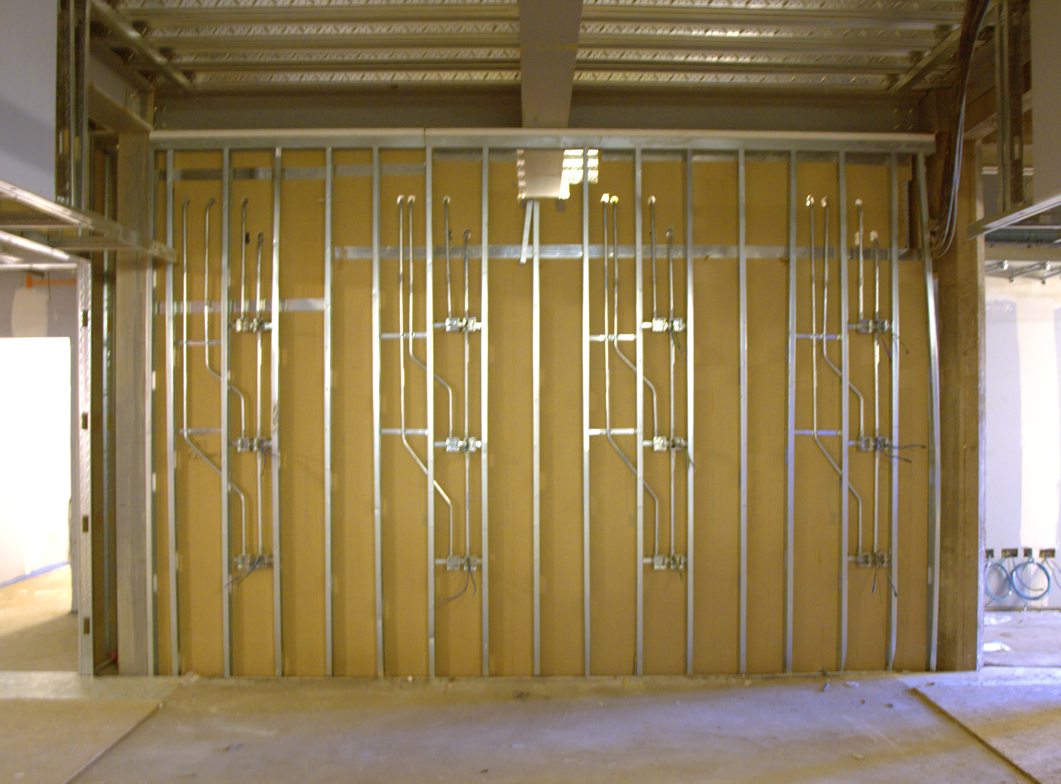 Video wall under construction showing underlying power and signal conduit and backing boxes.